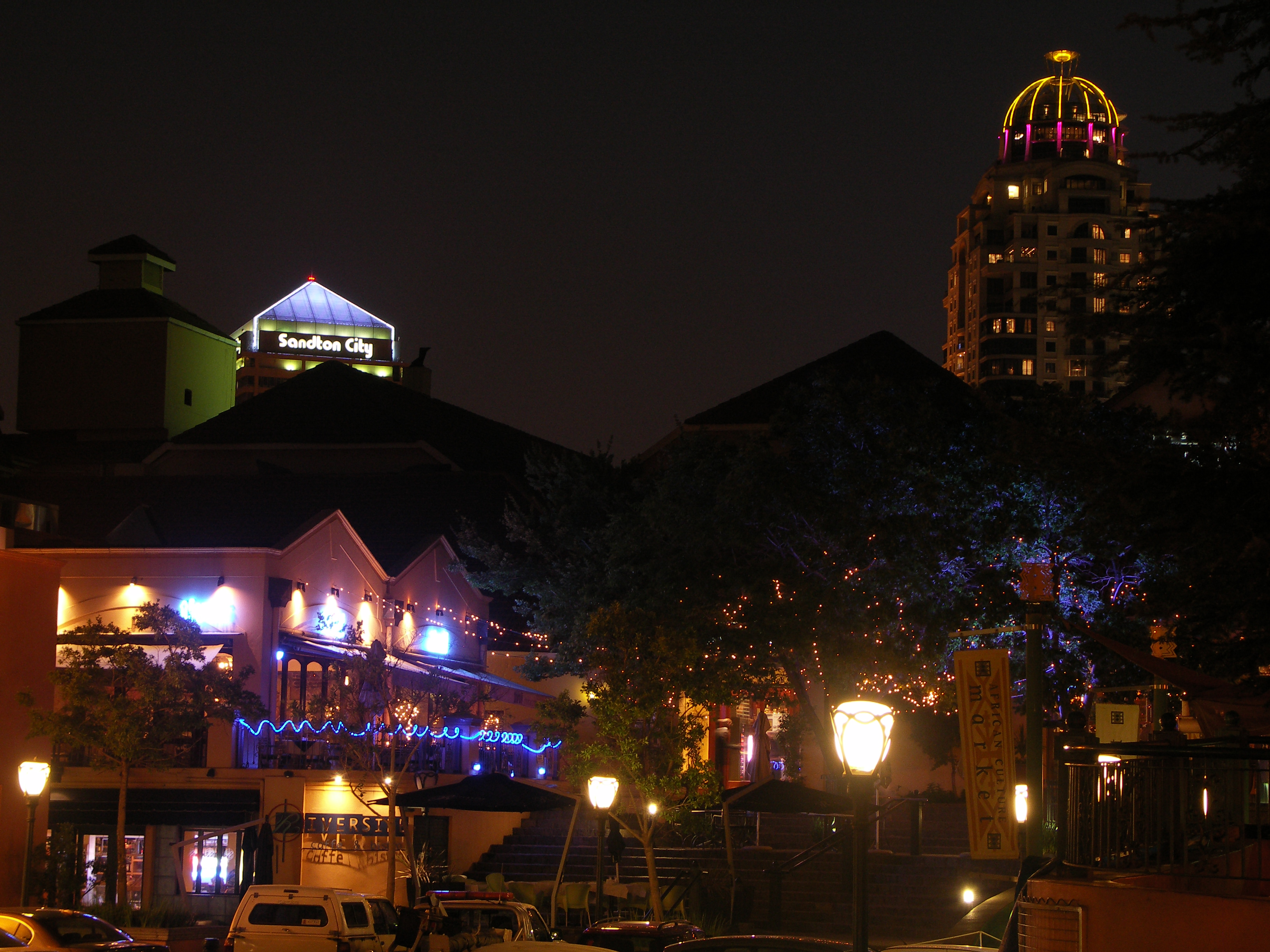 Nighttime in Sandton, Johannesburg, South Africa